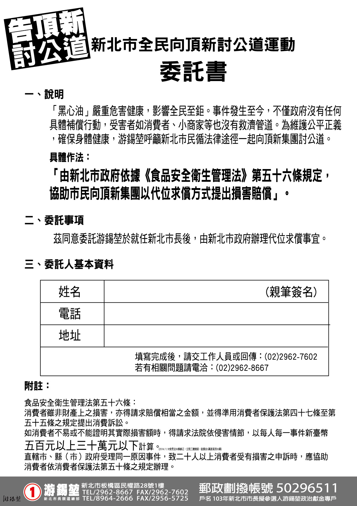 「新北市全民向頂新討公道運動」委託書